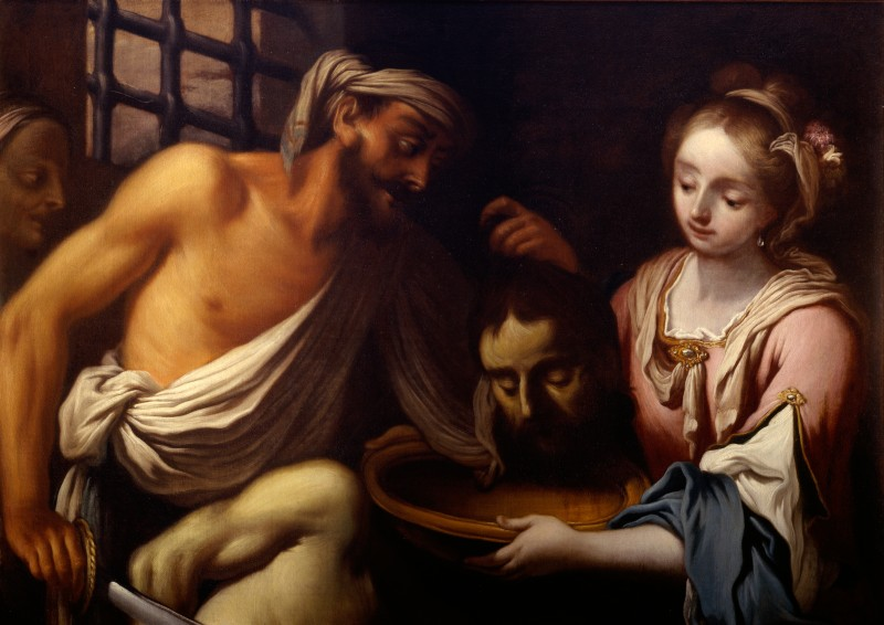 Nothing is known about the history of the work before its purchase for the Cariplo Collection. It was published for the first time in the catalogue of 1998 and attributed to Gaspare Venturini, a painter from Ferrara trained in the great workshop that left its imprint on the 16th century as a whole. In her description, Silvia Cibolini develops a comparison of the painting with the Nativity in the church of the Madonnina in Ferrara, and the similarities between the two works are significant and convincing, including the attention to decoration revealed in details such as the sumptuous drapery, precious brooches and Salome’s hair. It is, however, also the presentation of the scene as a whole that reveals points of contact, like the use of light from an external source that creates such strong chiaroscuro contrasts as to leave minor figures like Salome’s servant in the shadow. The face of Herod’s stepdaughter is repeated in one of the three Graces in the Allegory of Good Government now in the collection of the Banca Popolare dell’Emilia Romagna [1]. Despite having worked alongside the Carracci brothers on the decoration of the Palazzo dei Diamanti, the artist displays fidelity to the local tradition and a style of moderate Mannerism that was to be superseded a few years later by the new developments of the early 17th century.